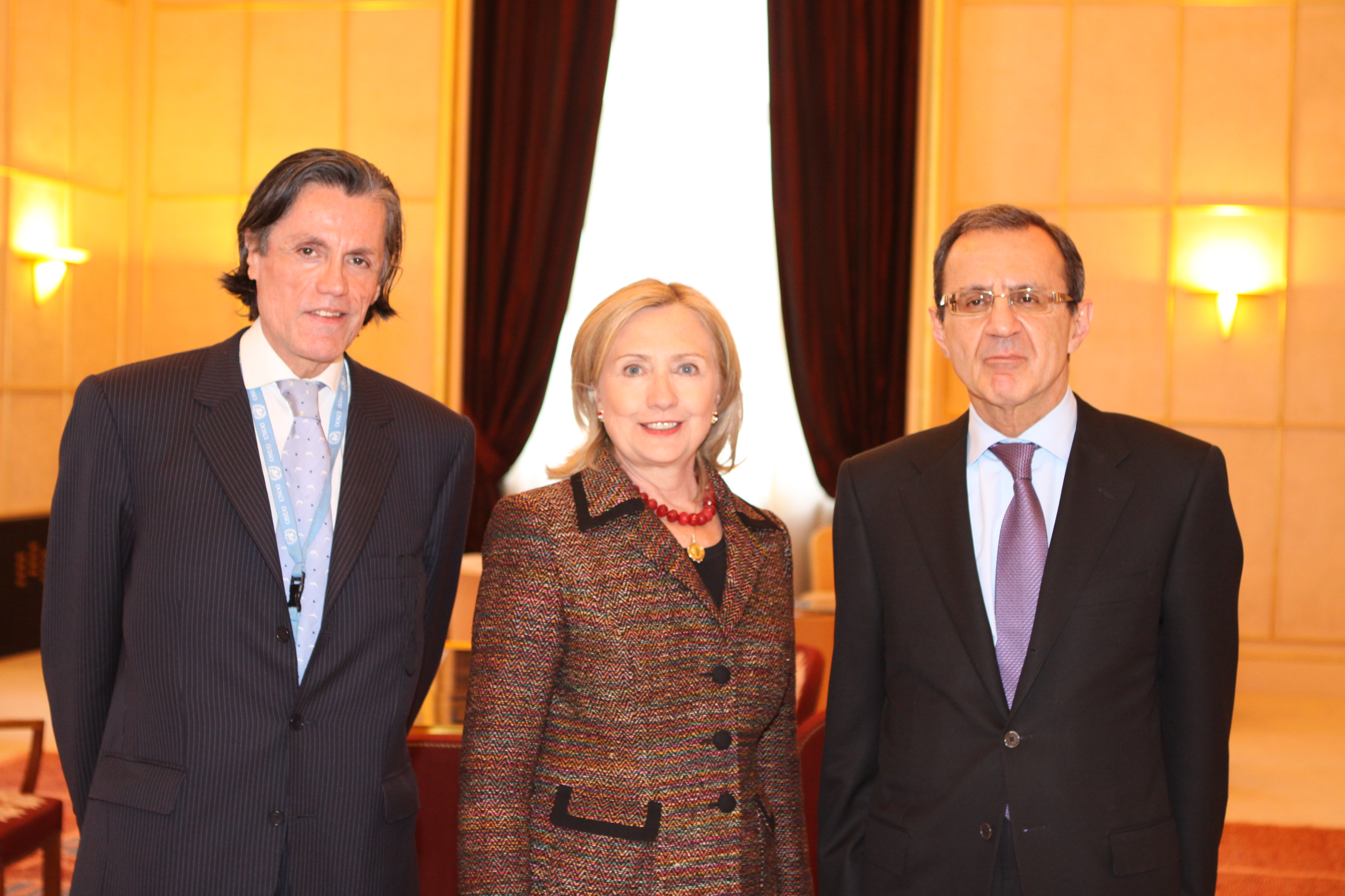 U.S. Secretary of State Hillary Rodham Clinton poses for a photo with Sergei Ordzhonikidze, Director-General of UNOG and Secretary-General of the Conference on Disarmament, right, and Pedro Oyarce Yuraszeck, Permanent Representative of Chile to the United Nations Office at Geneva and current President of the Conference on Disarmament, left. The photo was taken in the French Delegates’ Lounge just before the Secretary’s February 28, 2011, address to the Conference on Disarmament in Geneva, Switzerland. [Eric Bridiers photo/ State Department/ Public Domain]